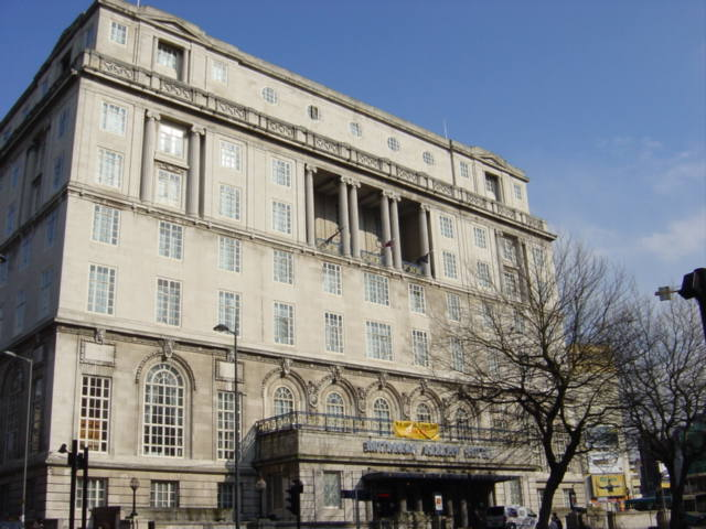 The Infamous Adelphi Hotel, Lime Street. The first Adelphi Hotel opened in 1826 and soon became the most popular hotel in the city gaining a reputation throughout Britain and Europe. In 1912, the great hotelier, Arthur Towle, acquired and rebuilt the Adelphi to make it one of the most luxurious in Europe, with solid marble walls in many of the bedrooms, indoor heated swimming pool, sauna and full central heating. The Sefton Suite is in fact a replica of the First Class Smoking Lounge on the ill fated "Titanic". The following years saw a flourishing trade, with the hotel as Liverpool’s arrival and departure point for passengers on the great liners to American and beyond with many famous people staying in the hotel. The Adelphi Hotel shot to fame in 1997 when it became the star of the TV screen with an eight-part series which documented the trials and trauma of the prestigious hotel; from the indoor barbecue which smoked out the banqueting hall to the infamous verbal onslaughts between Chef and Deputy Manager Brian which produced the now famous catch phrase; "Just cook will yer!"